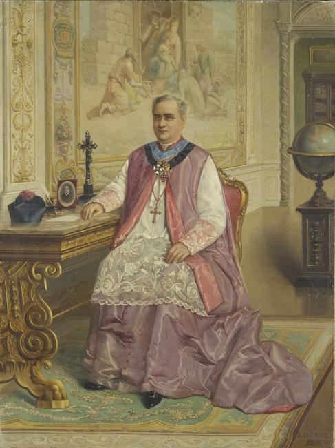 Portrait of priest (Μichele Grivelli), 1904